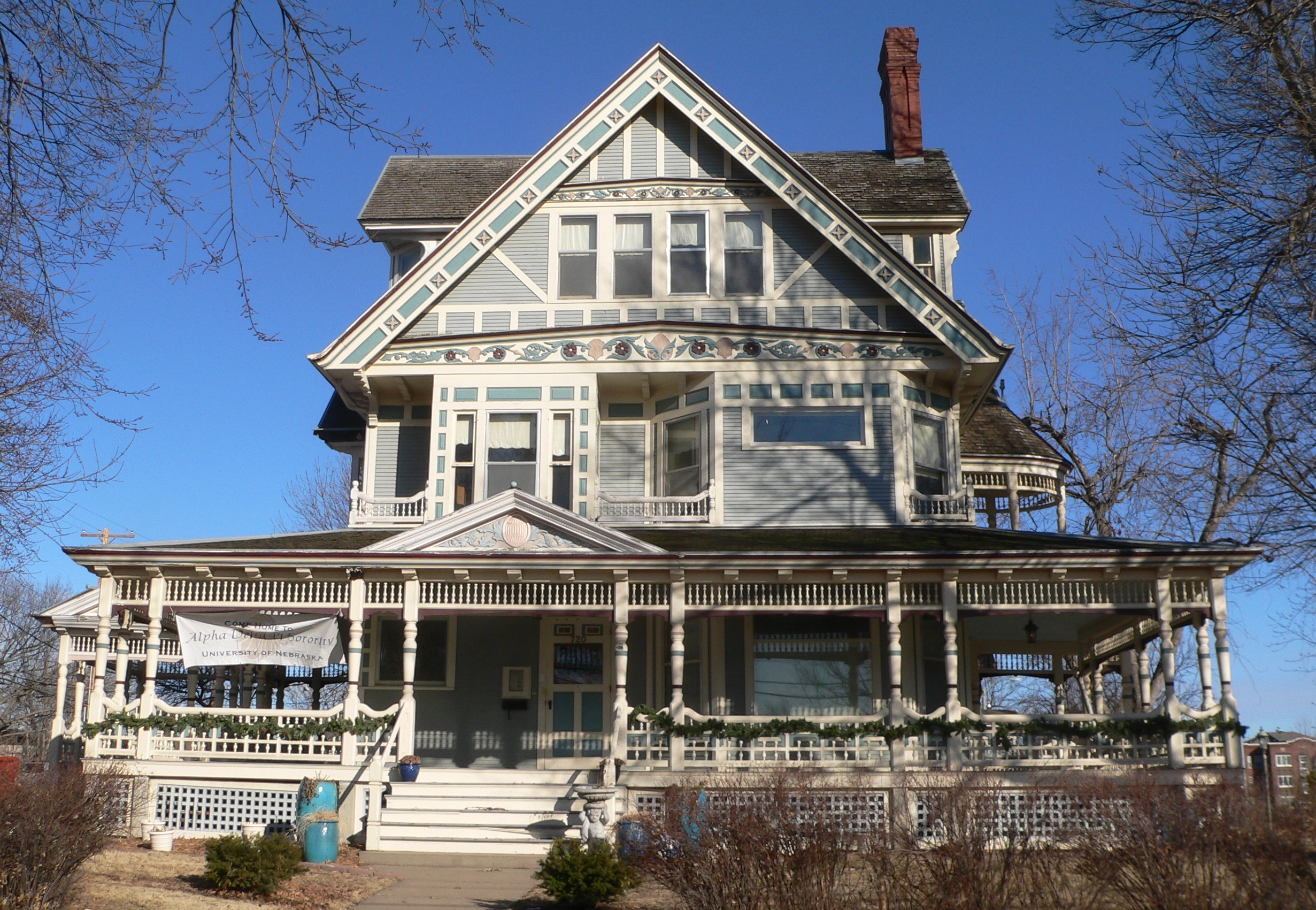 Yates House, located at 720 S. 16th Street in Lincoln, Nebraska; seen from the west, across 16th.